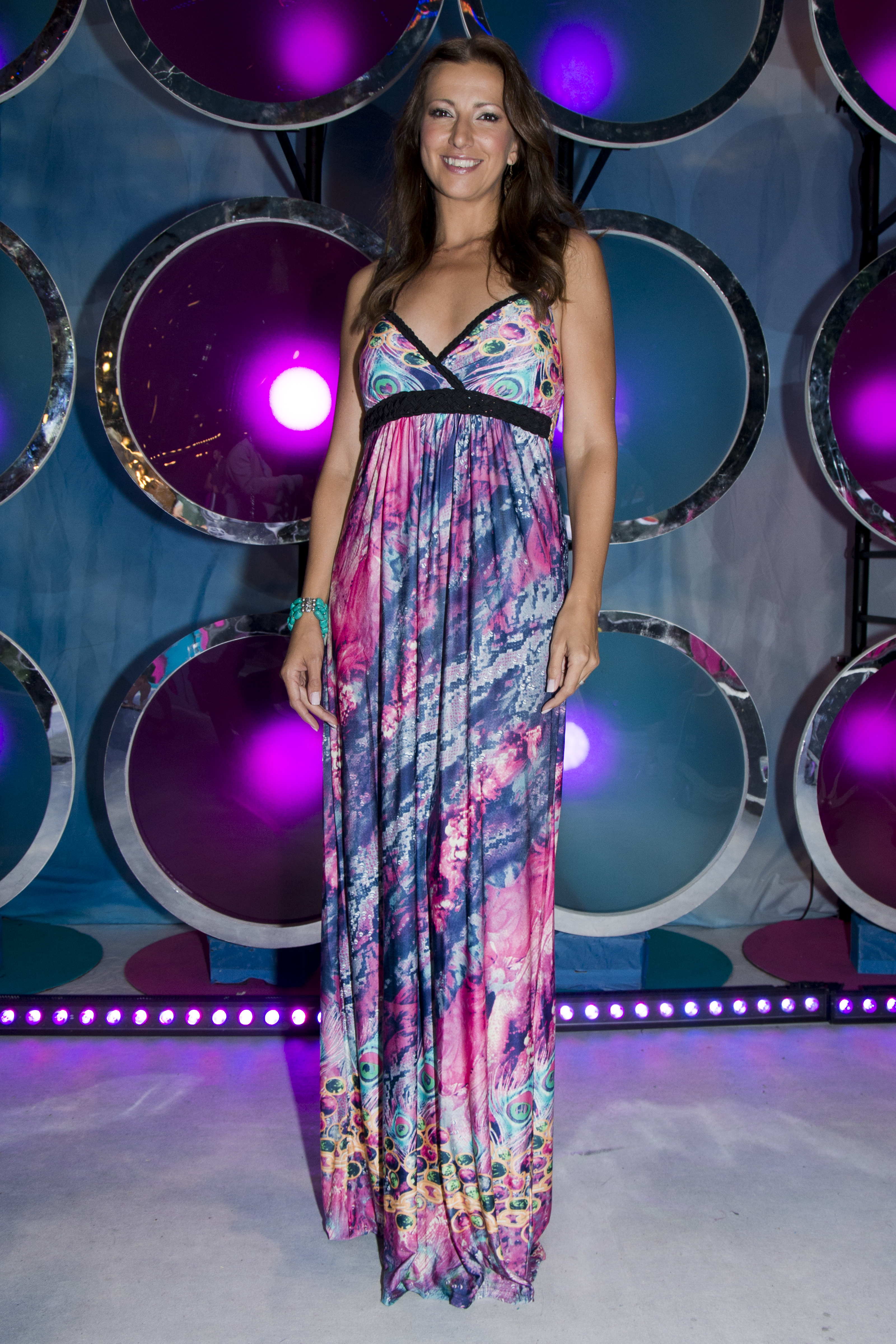 Sonja Aldén at Sommarkrysset, Gröna Lund (Stockholm)